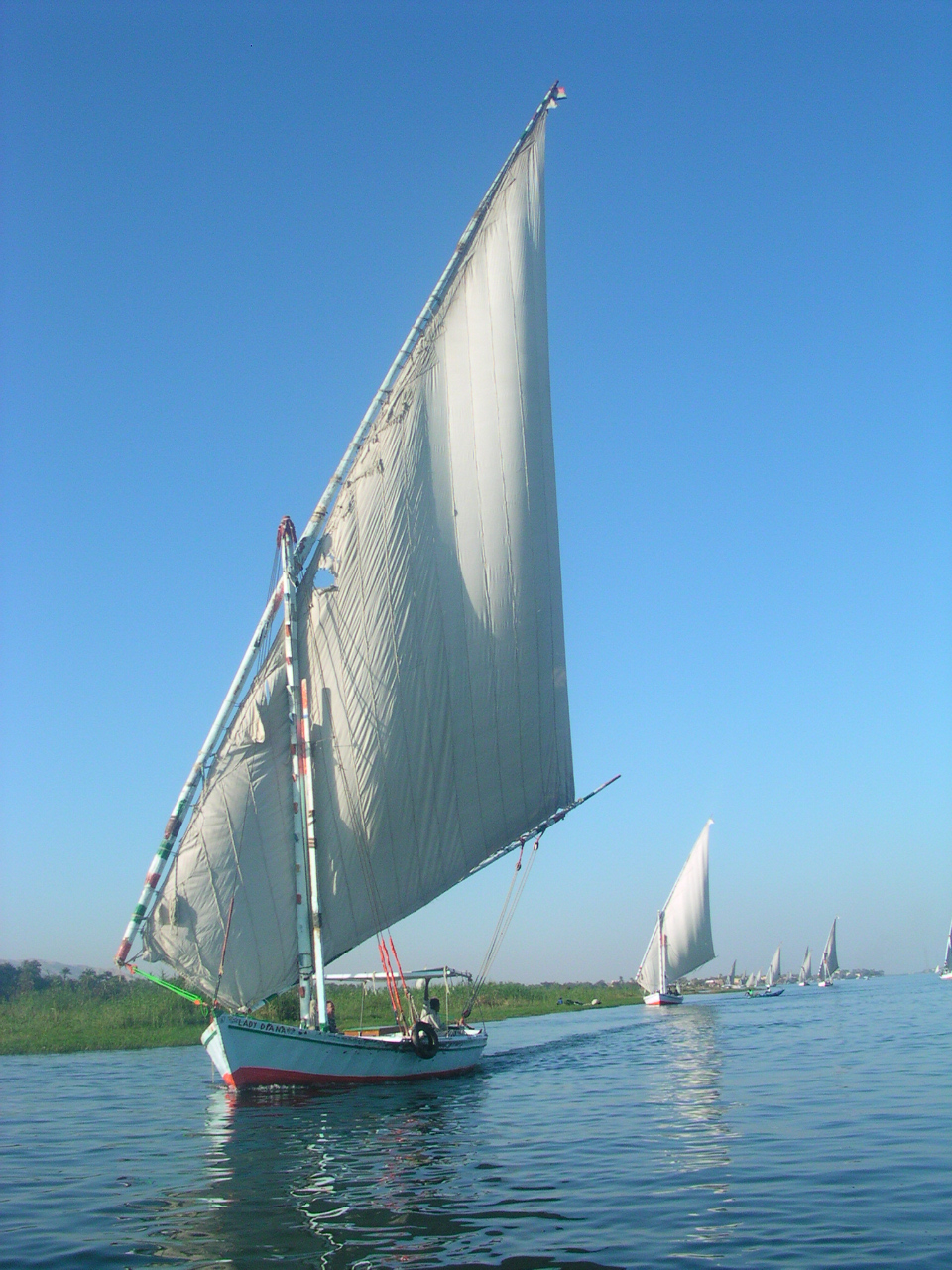 Taken in February 2007 at Luxor, Eygpt.